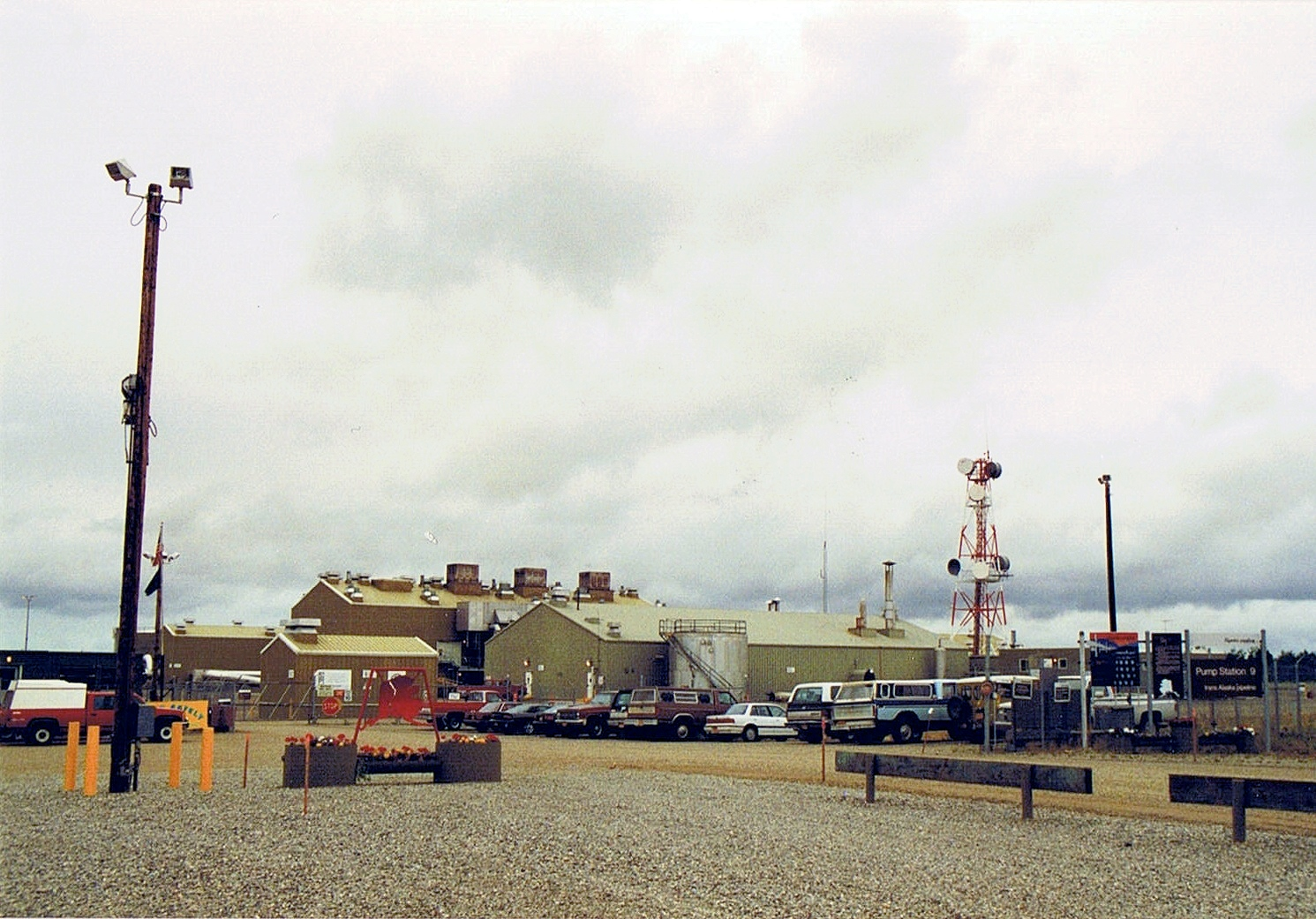 Trans-Alaska-Pipeline, pump station #9 scanned image